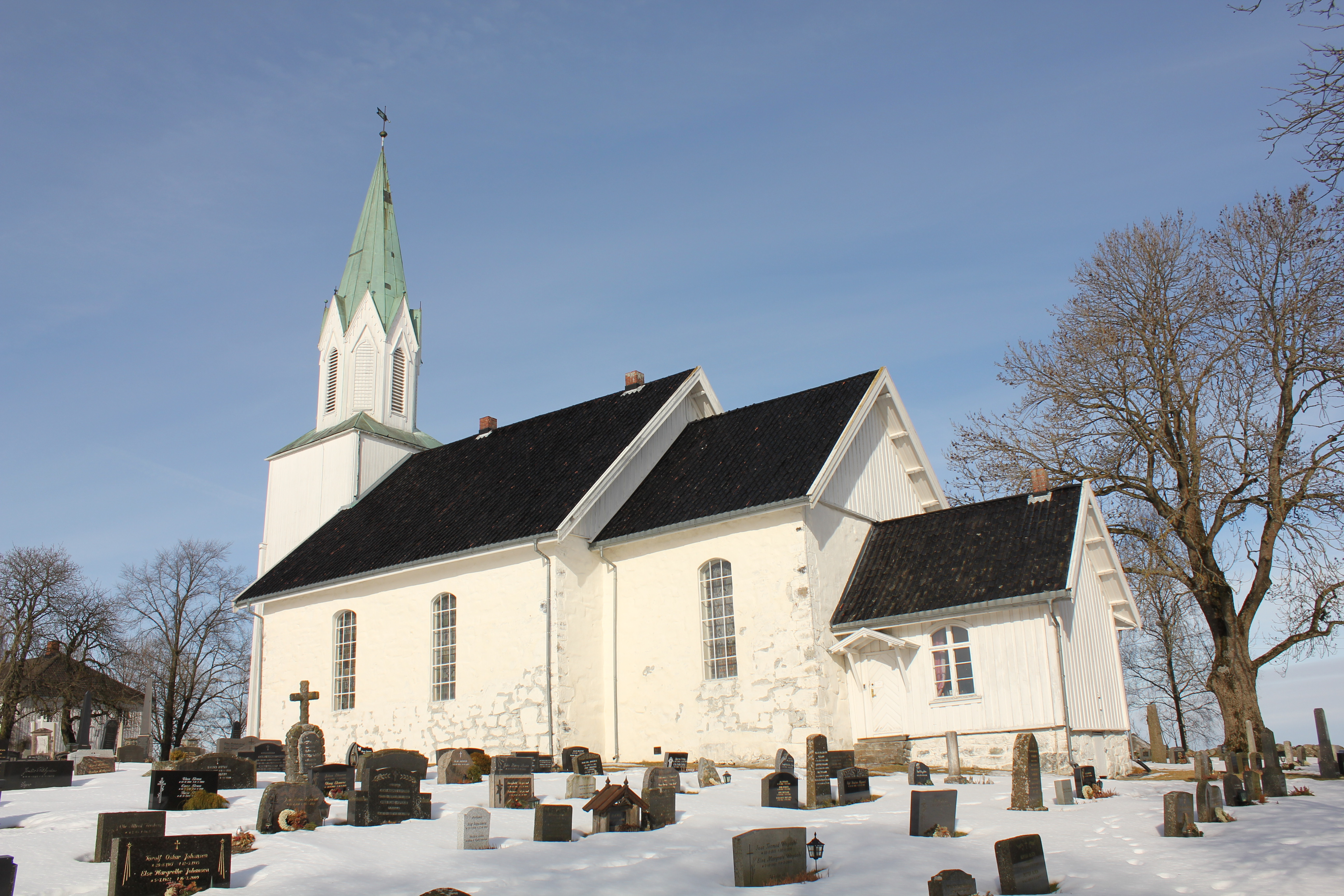 Kråkstad church in Akershus, Norway.